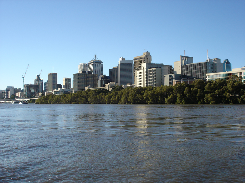 Brisbane CBD from the west, looking from the river.